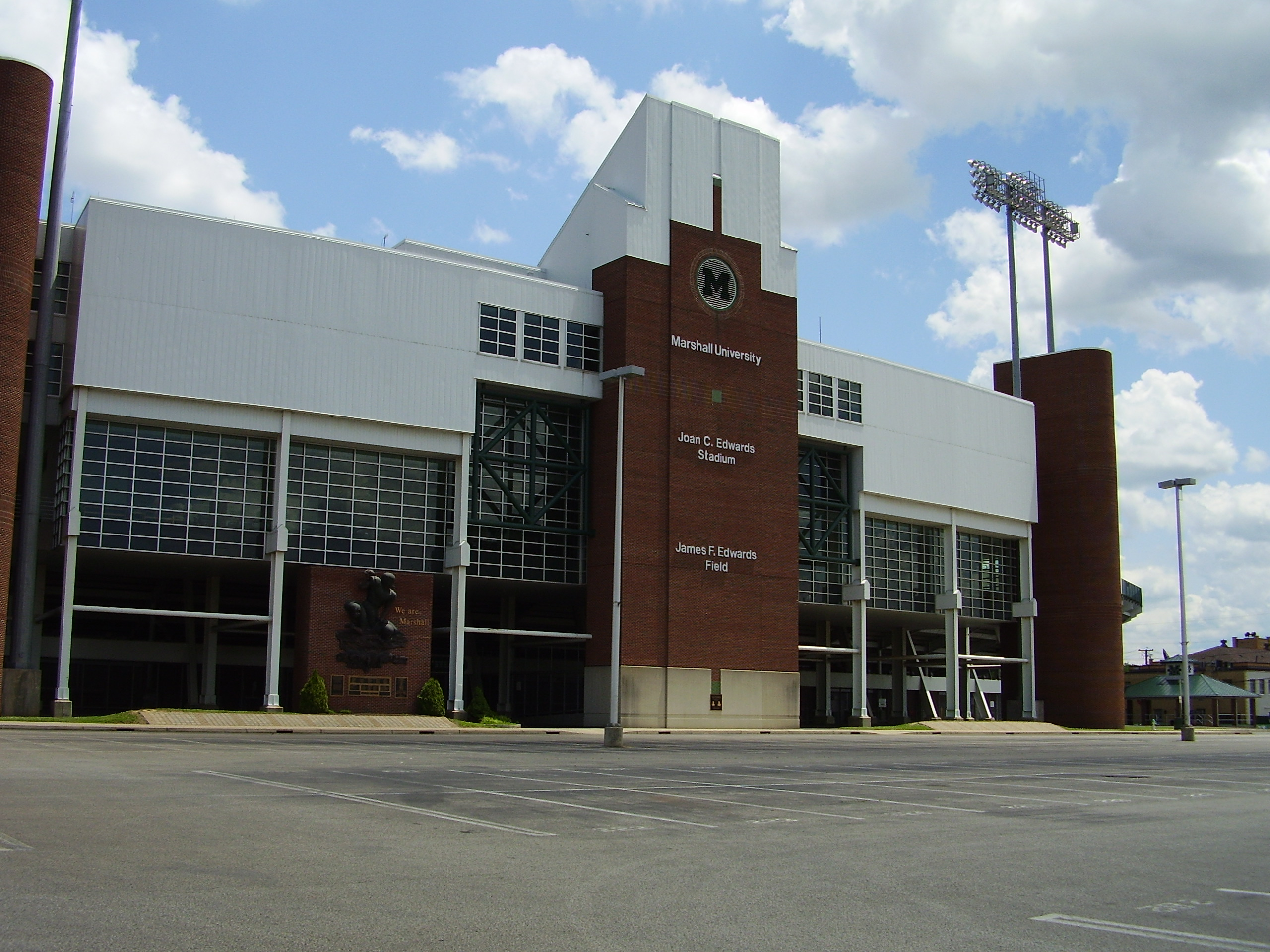 Joan C. Edwards Stadium at Marshall University